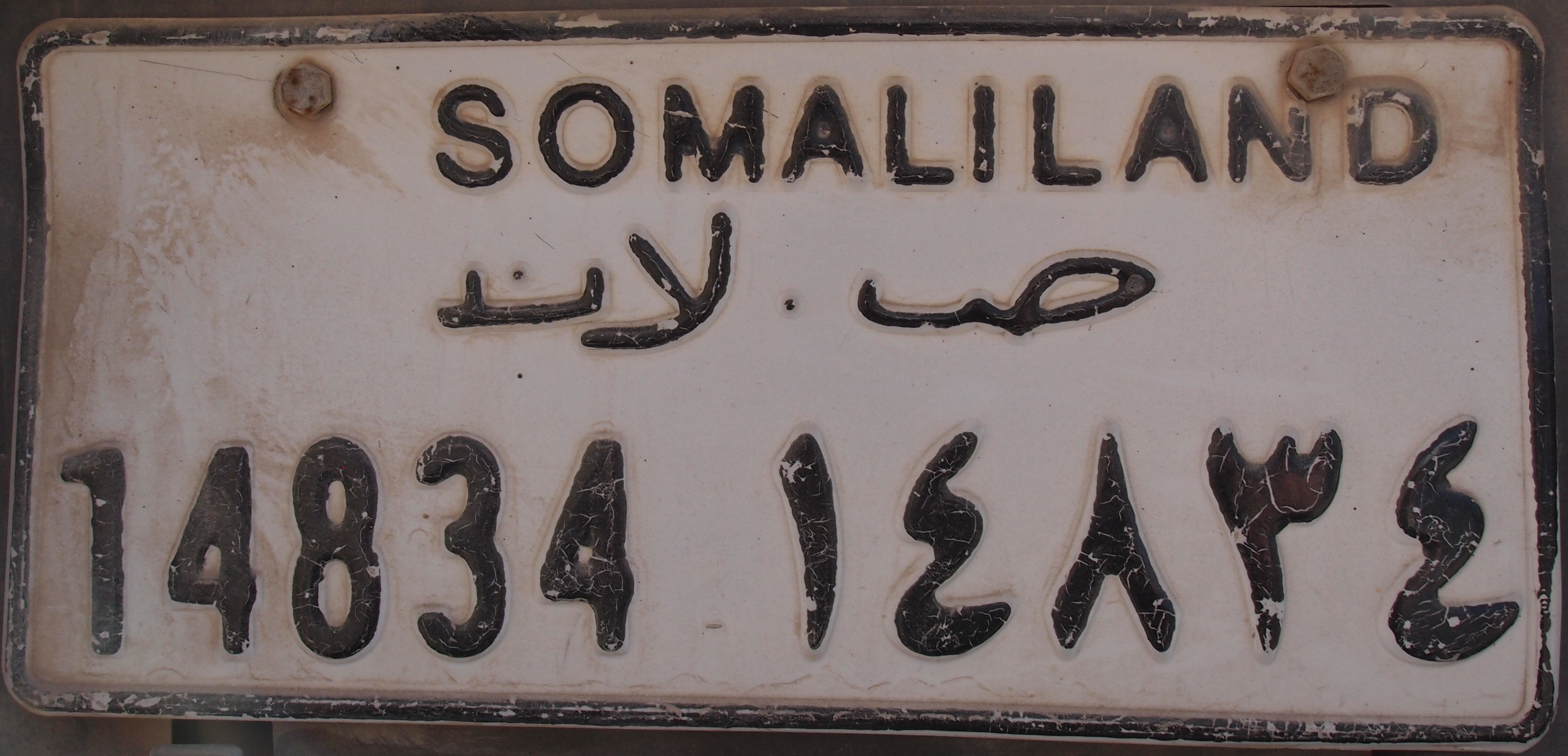 Somaliland vehicle license plate, old